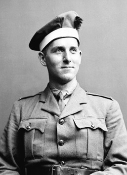 Portrait of Thomas Dinesen in the uniform of the Black Watch, in which he served during World War I.